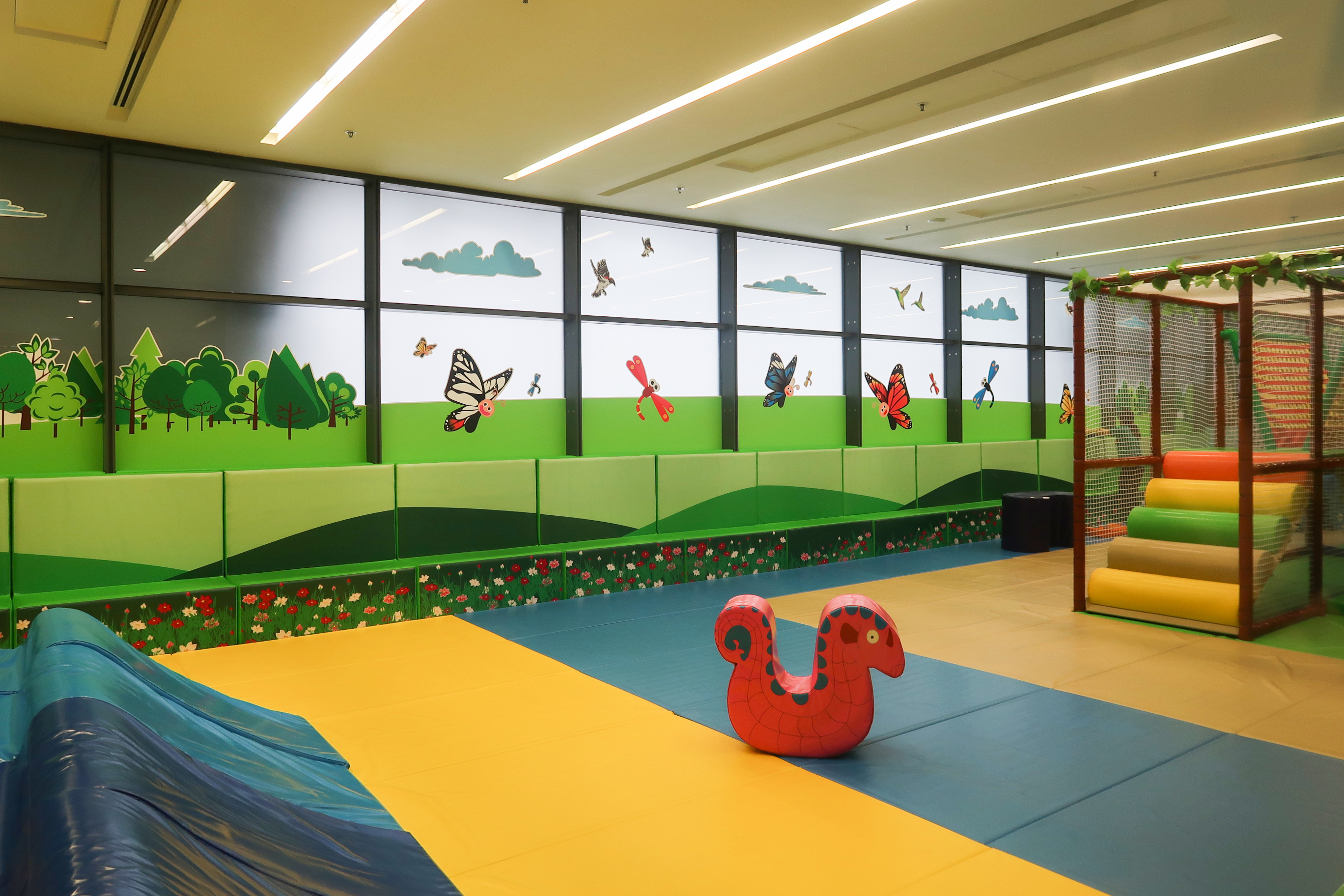 Ping Shan Tin Shui Wai Sports Centre Children Play room